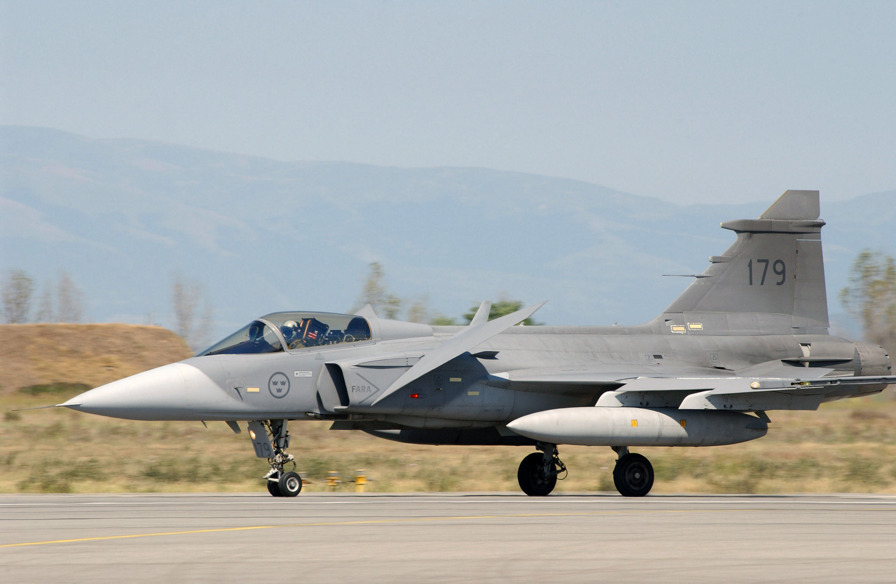 A Swedish Air Force JAS 39 Gripen fighter aircraft arrives in support of the Partnership for Peace Exercise Cooperative Key 2003 at Graf Ignatievo Air Base (AB), Bulgaria.